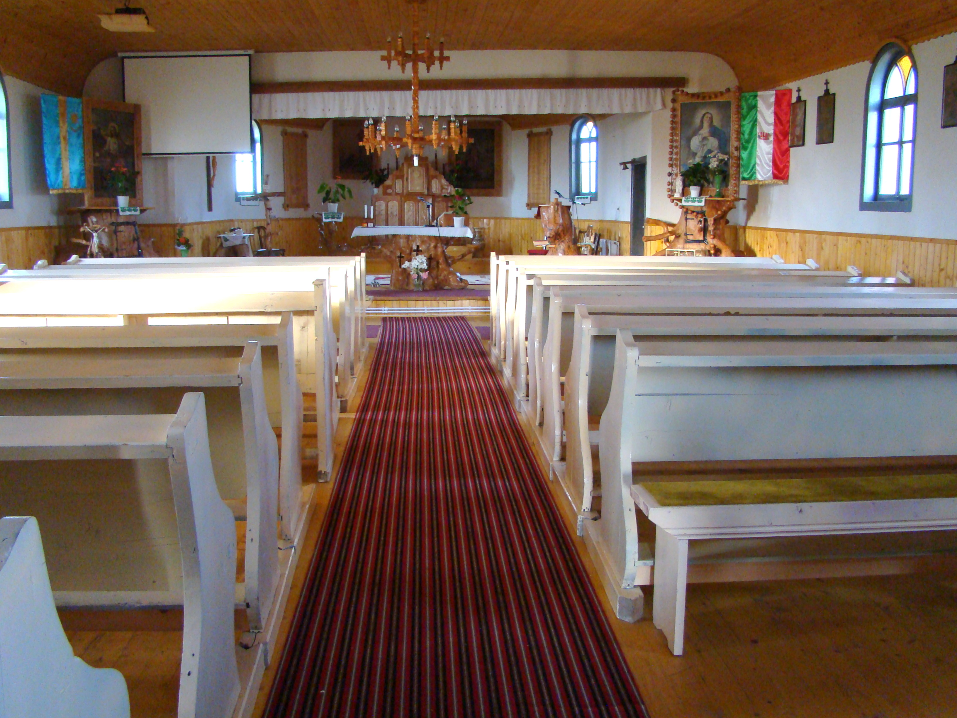 Roman Catholic church in Fântâna Brazilor, Harghita County, Romania